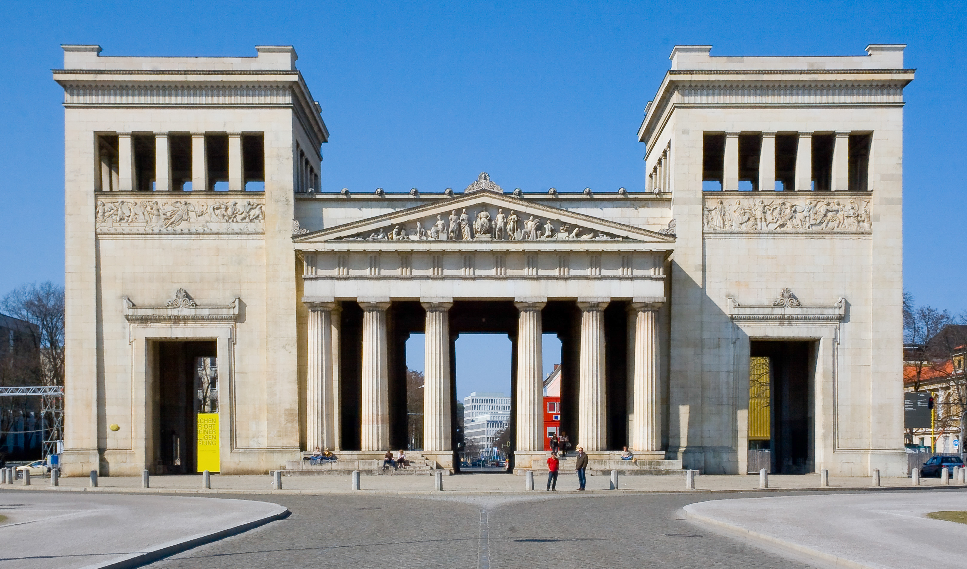 Propyläen, Königsplatz, Munich, Germany